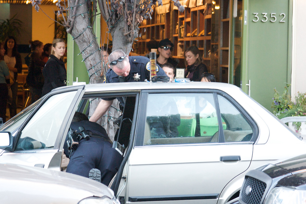 San Francisco police searching a car in Crow Hollow, San Francisco, in 2008